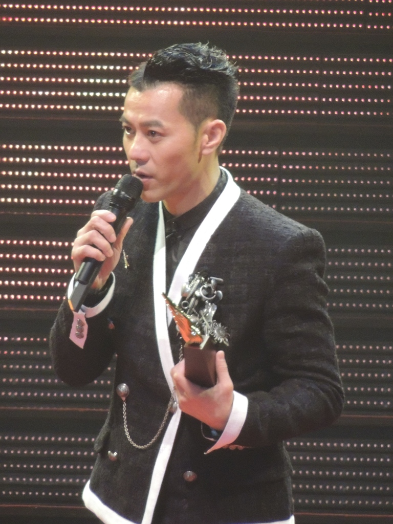 Ultimate Song Chart Awards 2013